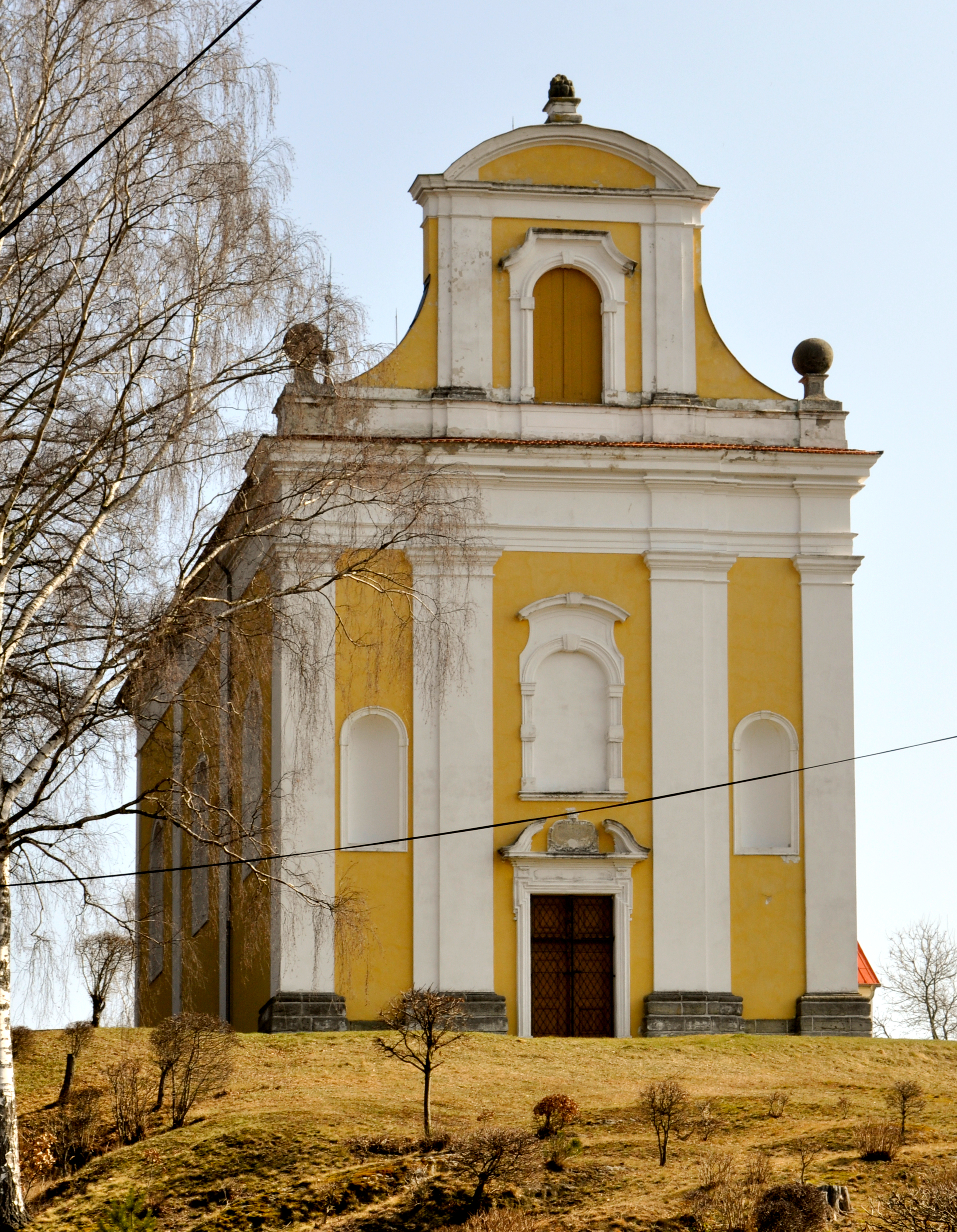 Church of Saint Gall, Tuhaň, Ústí nad Labem region